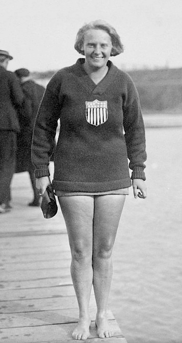 Charlotte Boyle (swimmer) at the Olympic Games in Antwerp, circa August 1920.